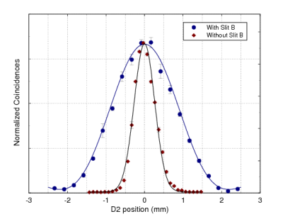 Created by Tabish, from Kim-Shih's preprint.